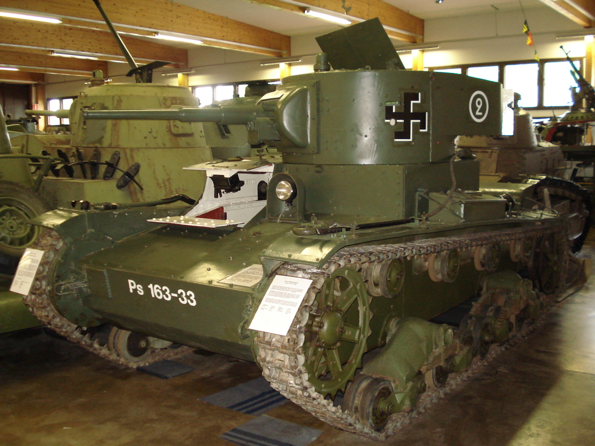 Soviet T-26 model 1933 tank, in Finnish markings, displayed in Finnish Tank Museum (Panssarimuseo) in Parola. This particular tank has been restored to drivable condition. Photo taken on July 14, 2006. Source: Photo by me, User:Balcer.